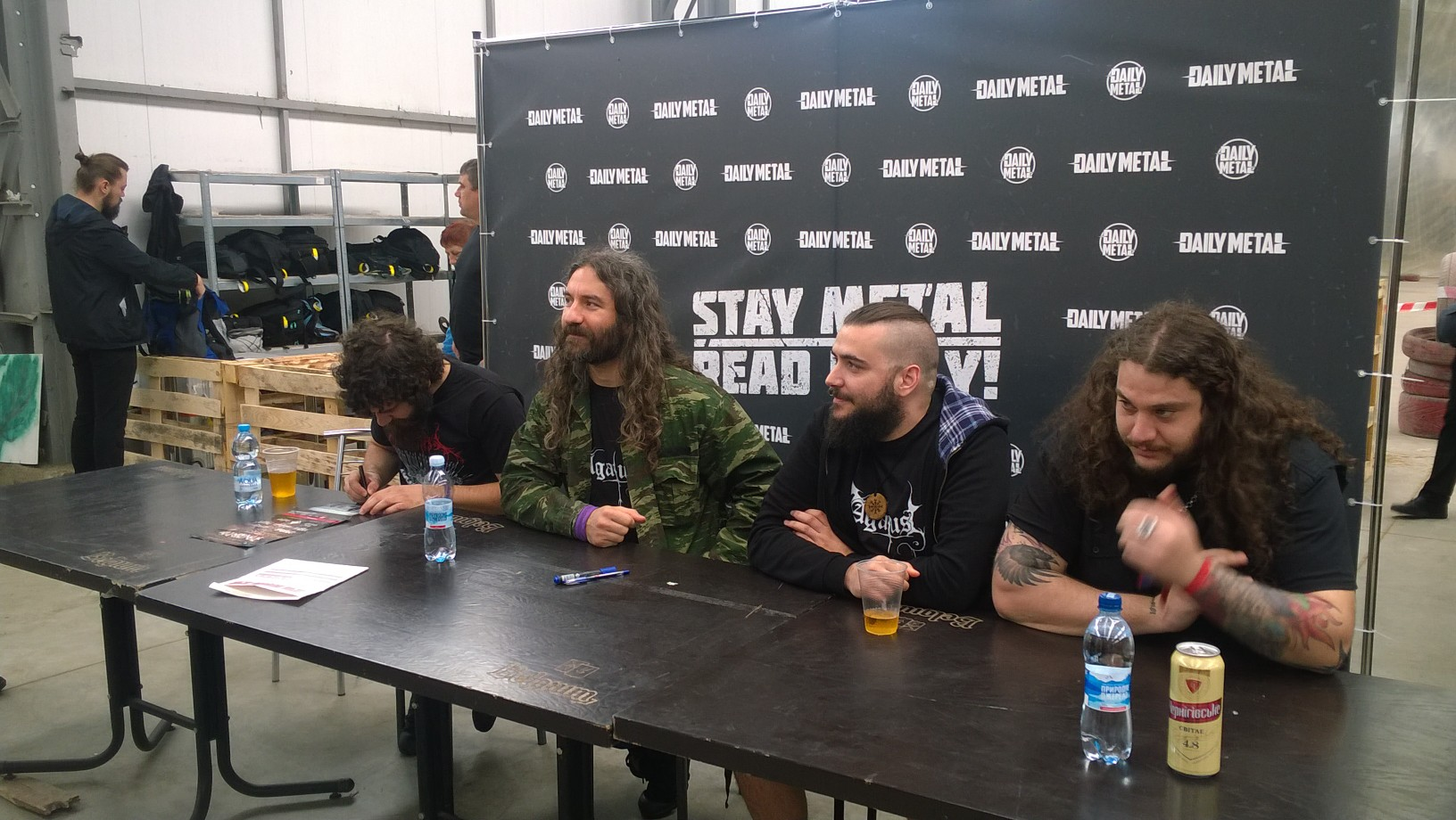 Zemial at Ragnard Reborn festival in Kharkiv (2018)